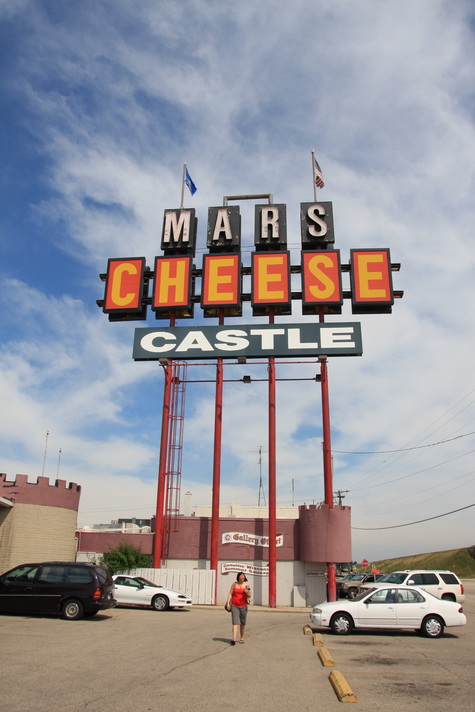 The sign for Mars Cheese Castle, a roadside store in Kenosha County, Wisconsin, in front of the store's former building. The store now operates out of a new building, but the sign remains.